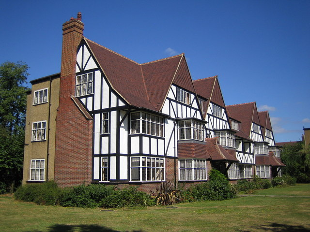 West Acton: Chester Court, Monks Drive, W3. One of a group of Mock Tudor apartment blocks in this housing estate.